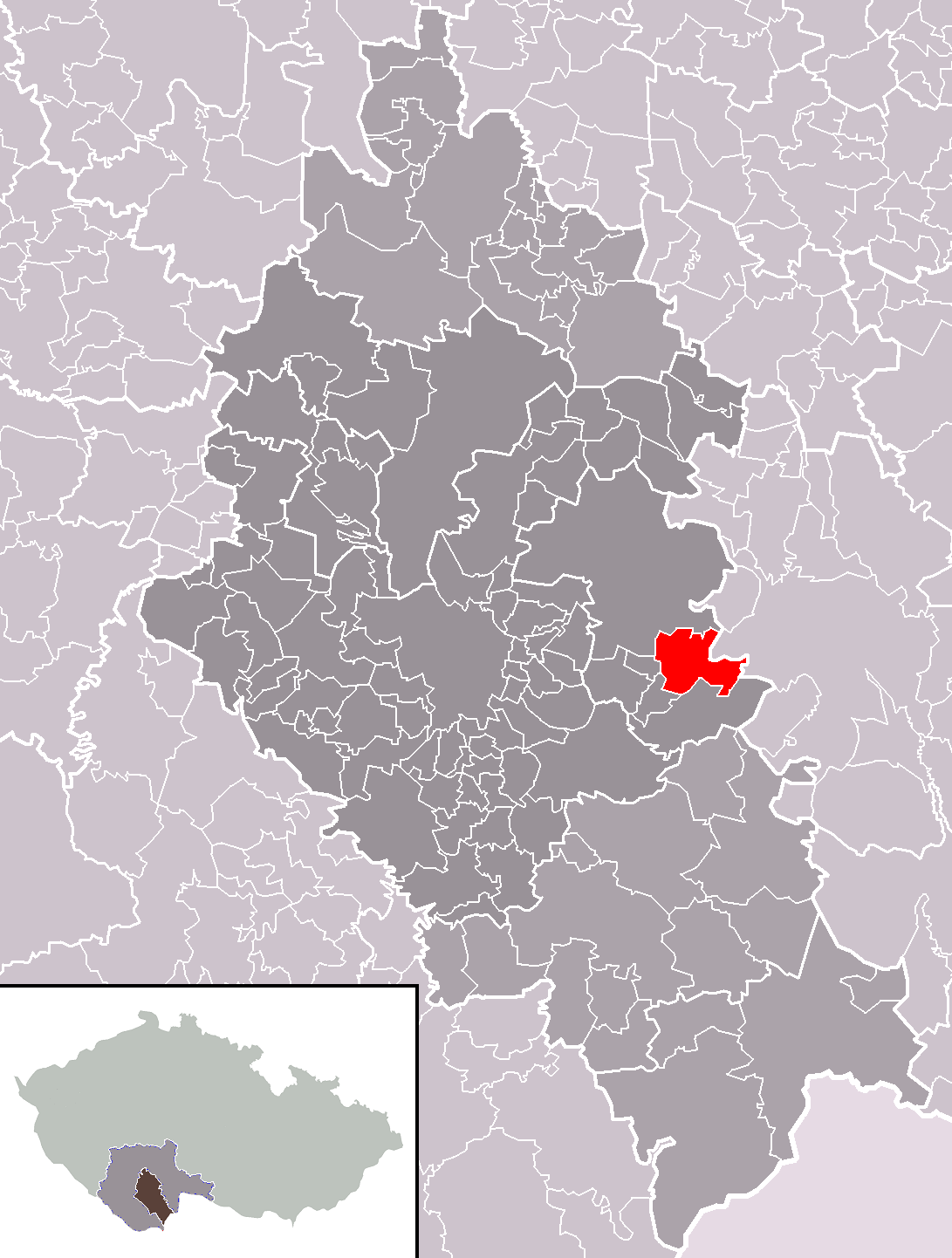 Location of Štěpánovice municipality within České Budějovice District and administrative area of České Budějovice as a Municipality with Extended Competence.